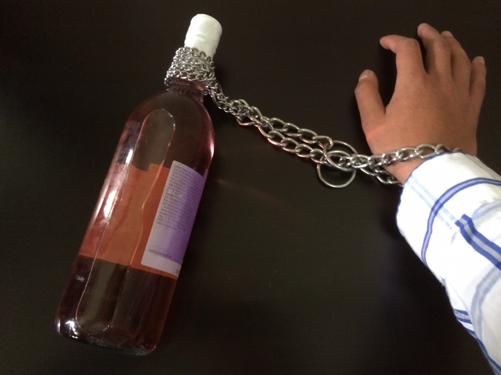 Alcoholism is a multifactorial disease that causes several damages in a drinking person because of alcohol dependence. The person can not stop drinking the alcohol because the body is used to operating just like that.